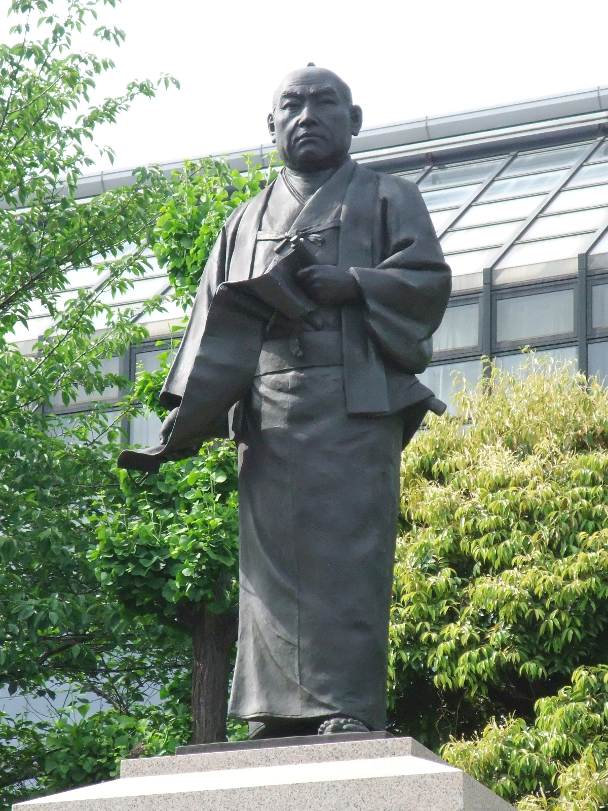 Statue of Oishi Kuranosuke Yoshio at Sengaku-ji temple in Minato-ku, Tokyo